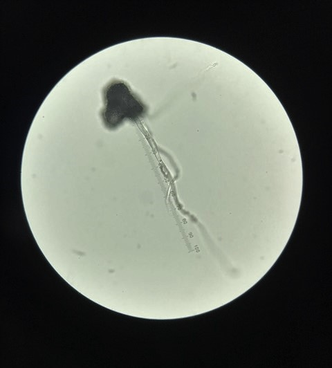 Aspergillus fumigatus